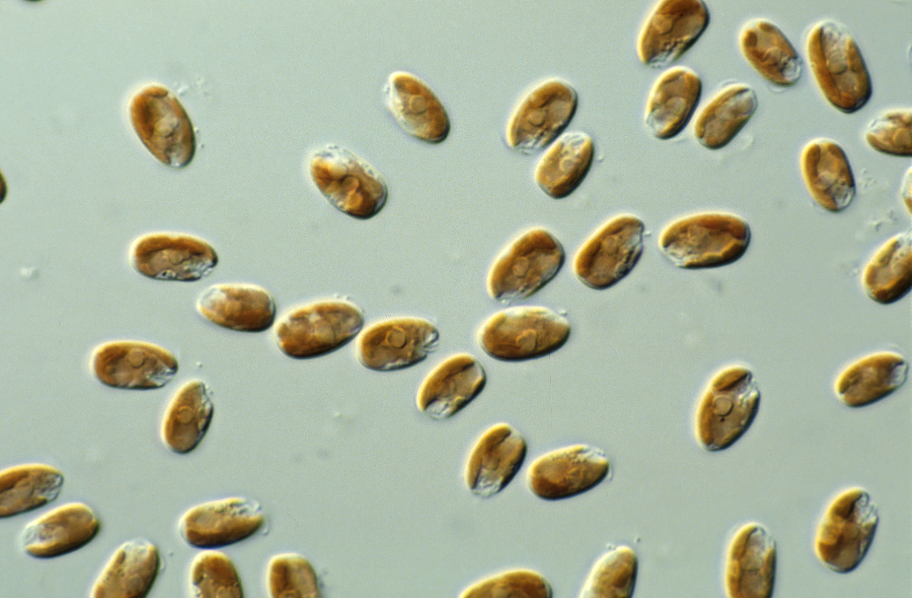 microalgal cultures